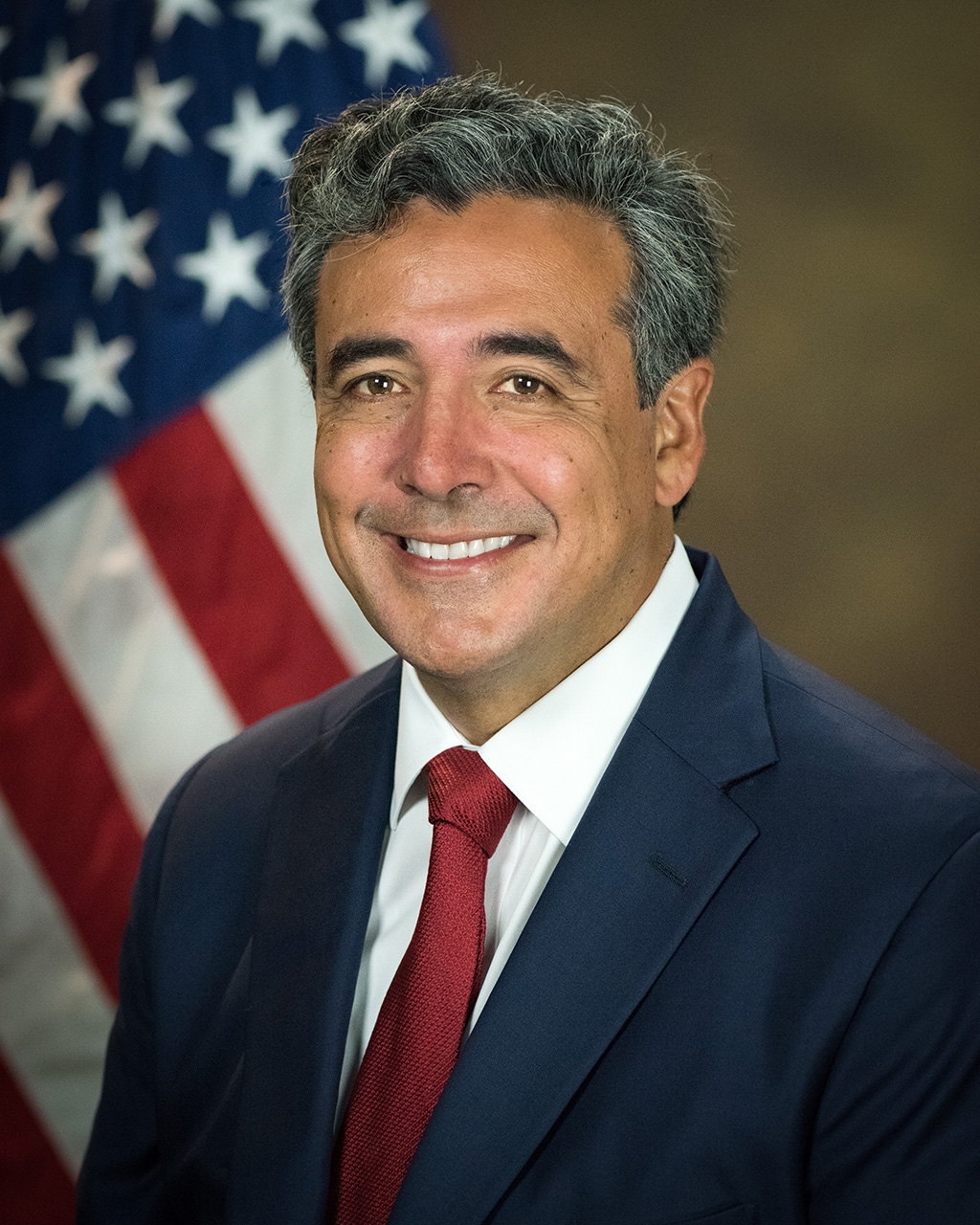 Noel Francisco, Solicitor General of the United States during the Trump Administration